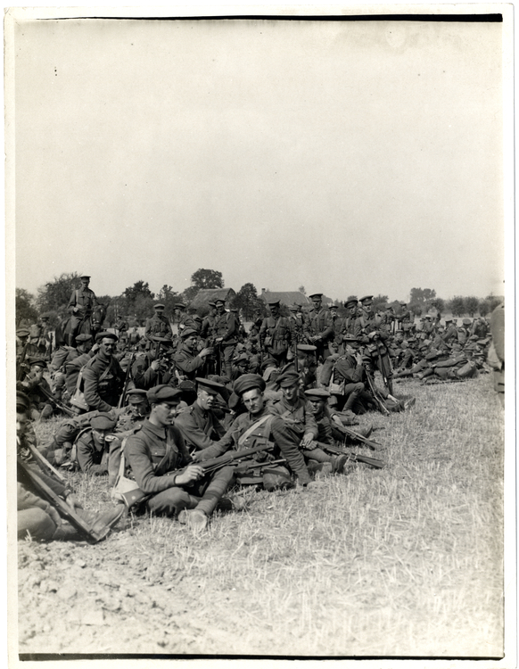 British infantry [2nd Leicesters] resting in a field in Flanders [Bout de Ville].